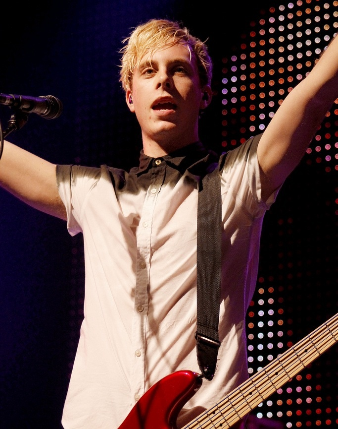 Riker Lynch performing at the R5 Loud Tour in the House of Blues Sunset Strip, West Hollywood, CA, May 19th, 2013.